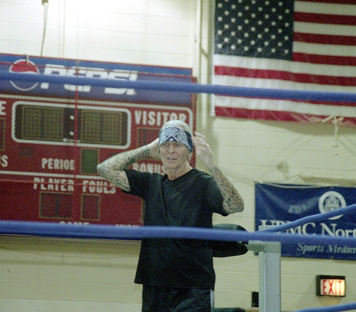 Jimmy Valiant prepares to ref a match. Taken April 2006 at the CCW show in Franklin, PA. I was watching Starrcade 85 last night, Jimmy looks alot different these days. My batteries for my flash died so I pushed my ISO 800 film to 3200. The results are pretty grainy.